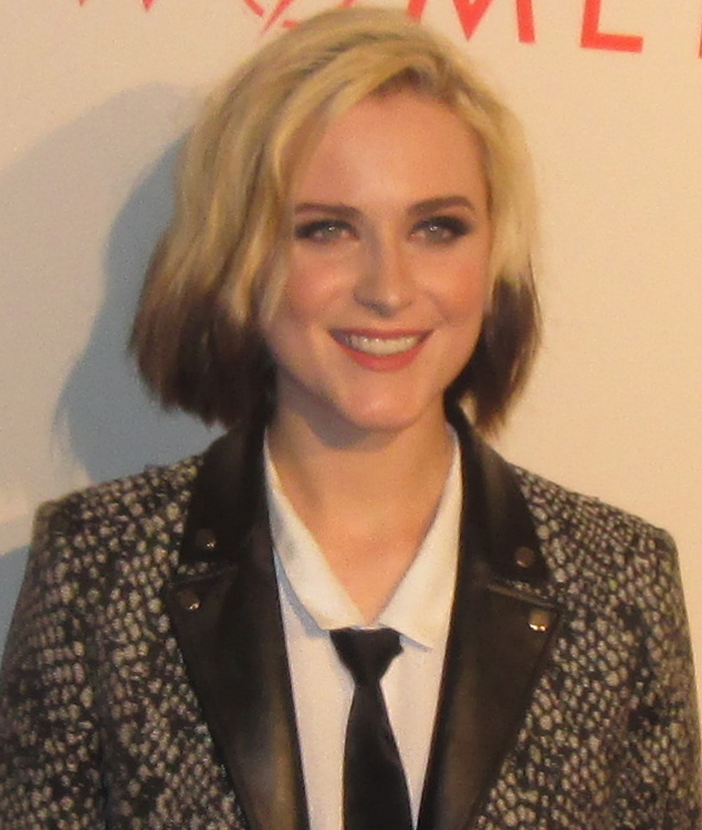 Actress Evan Rachel Wood at the 2014 "An Evening With Women" Benefiting L.A. Gay & Lesbian Center